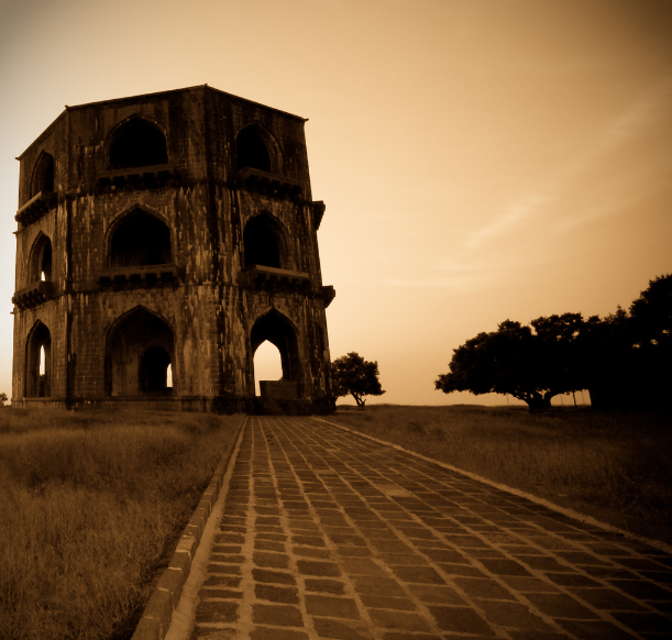 Salabat Khan's Dome, Ahmednagar